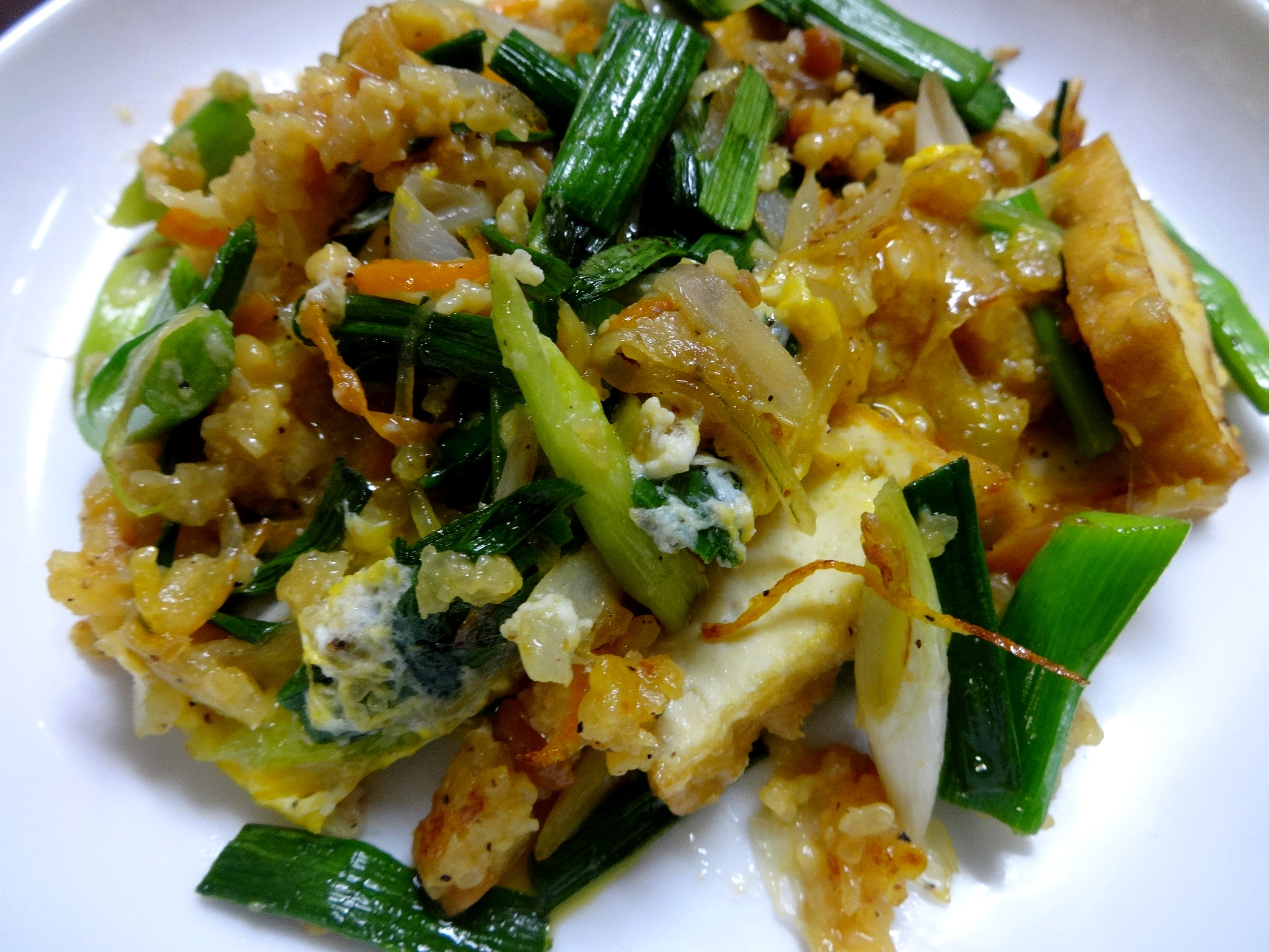 Fried garlic leaves, eggs and deep-fried beancurd of Amami cuisine